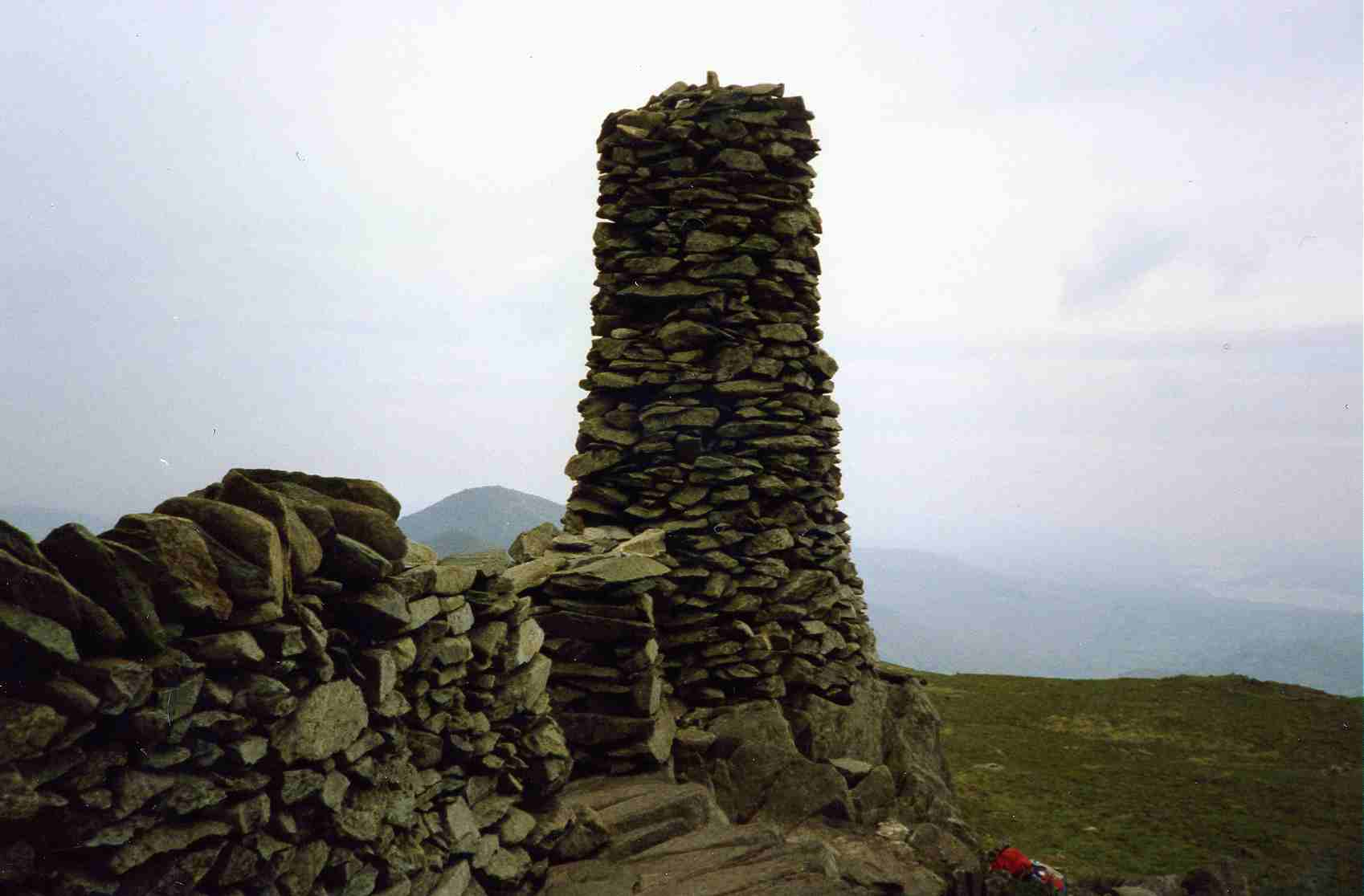 Personal picture taken by Mick Knapton